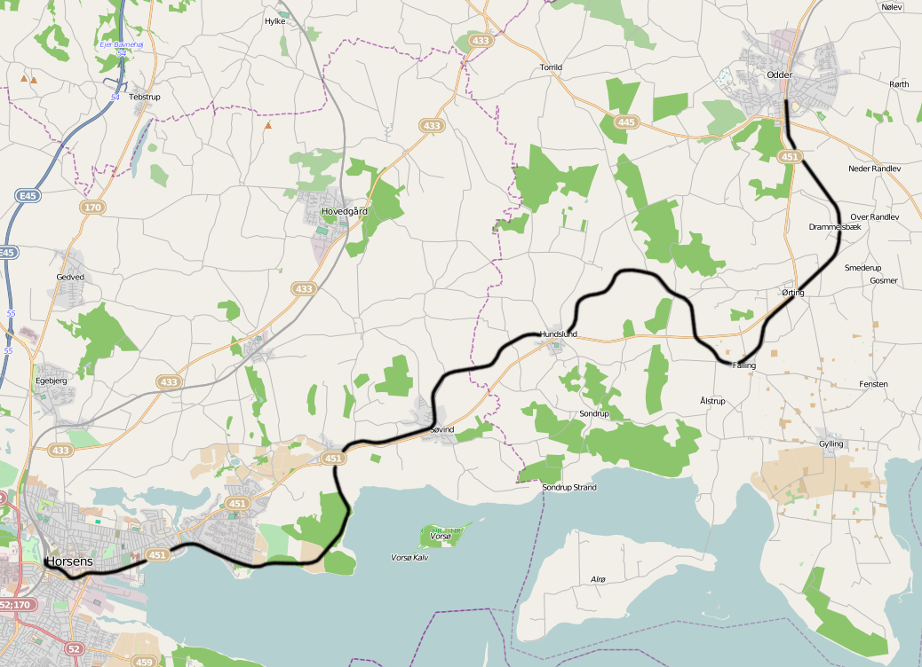 Railway line Horsens - Odder